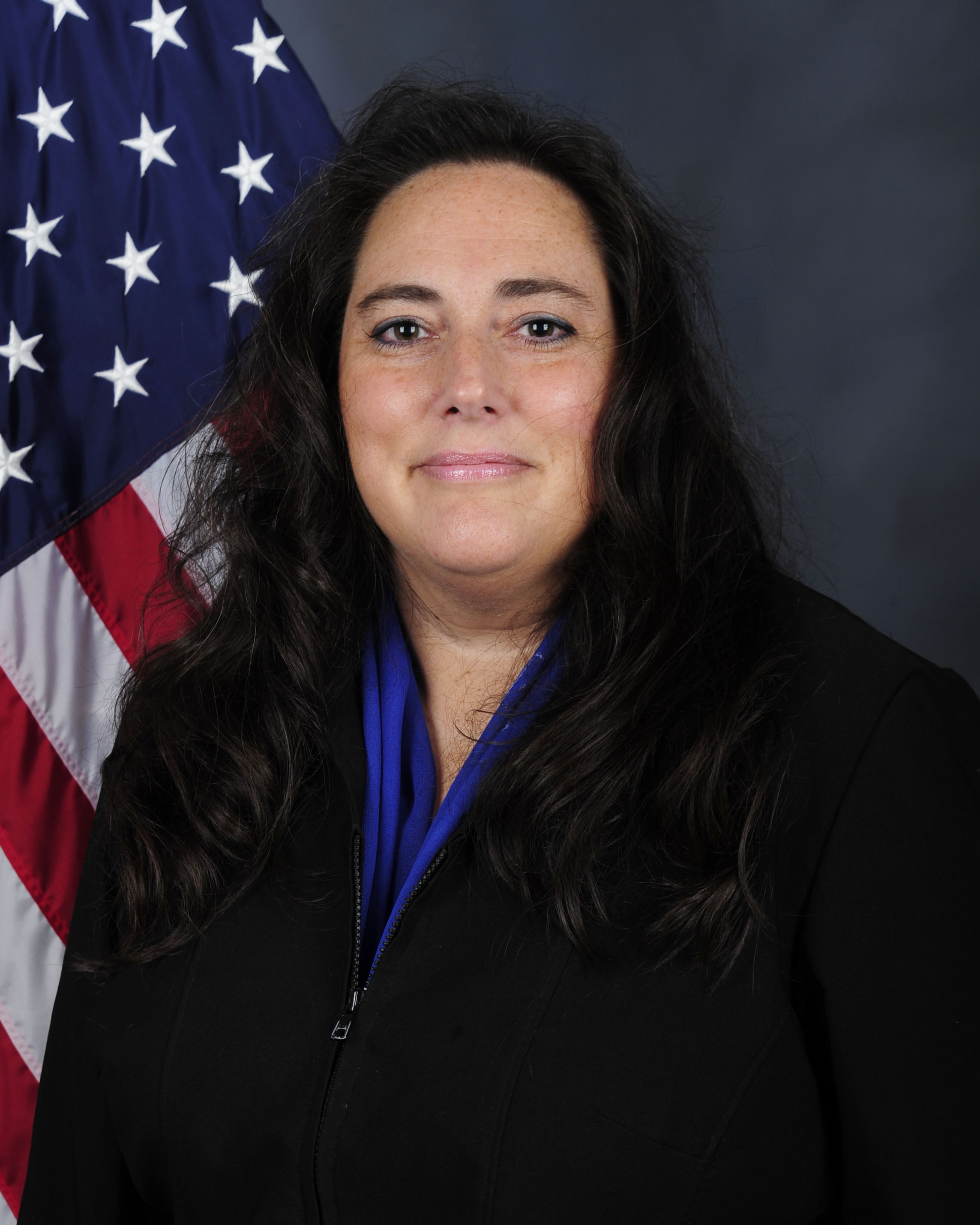 Elaine McCusker's official photo as the Director of Resources and Analysis for the United States Air Force.